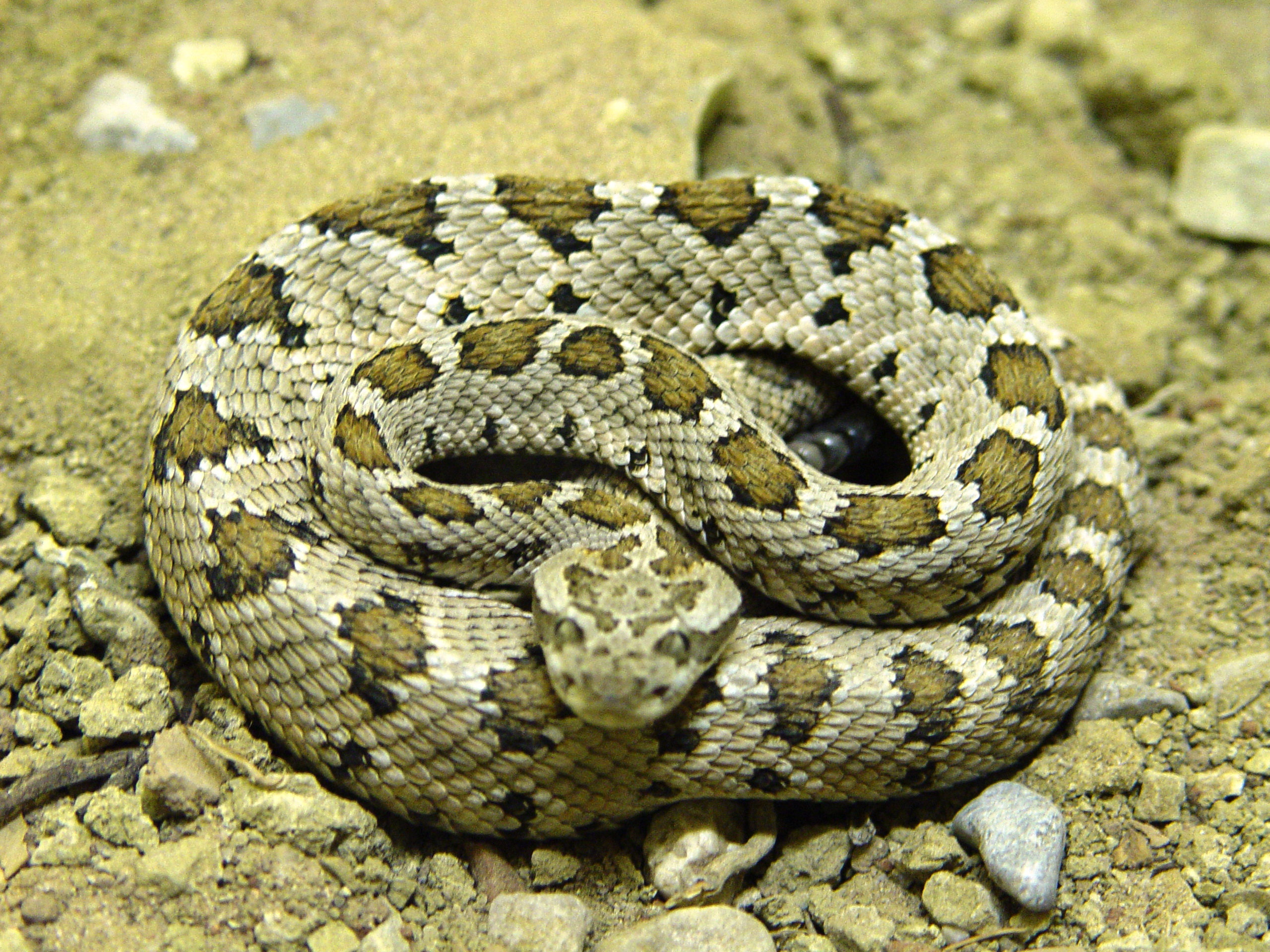 Baja California rattlesnake (Crotalus enyo enyo) at the American International Rattlesnake Museum